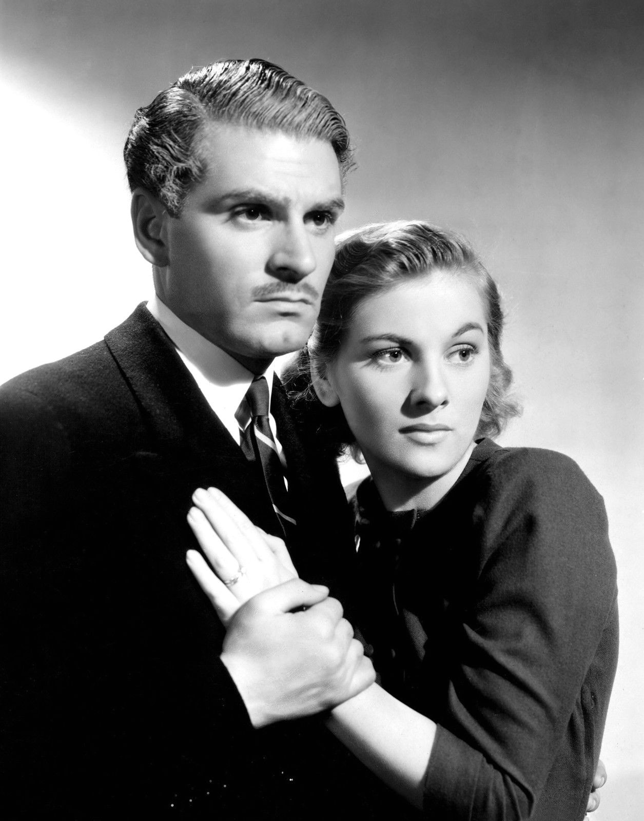 Photo of Laurence Olivier and Joan Fontaine from the 1940 film Rebecca.